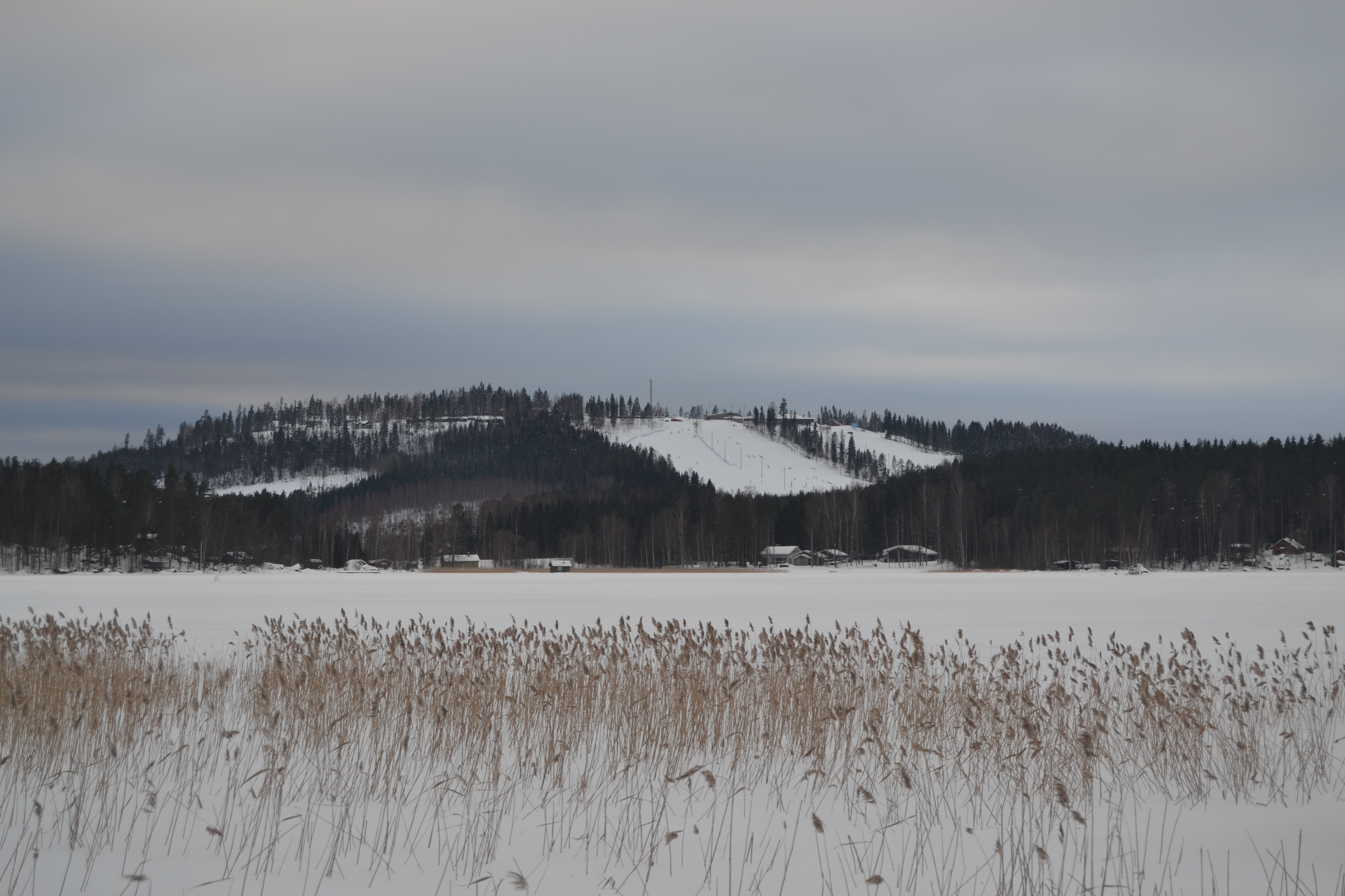 Riihivuori ski resort in Muurame, Finland